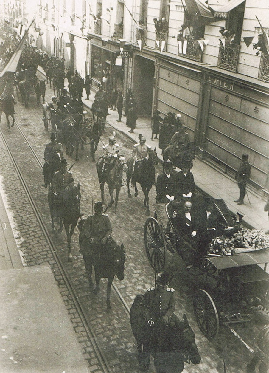 French président Raymond Poincaré un Ville-Pépin's street, in Saint-Servan-sur-Mer ( today : Saint-Malo), France. Photography by Louis Miniac (1887-1952). Collection Miniac family (Rennes, France).